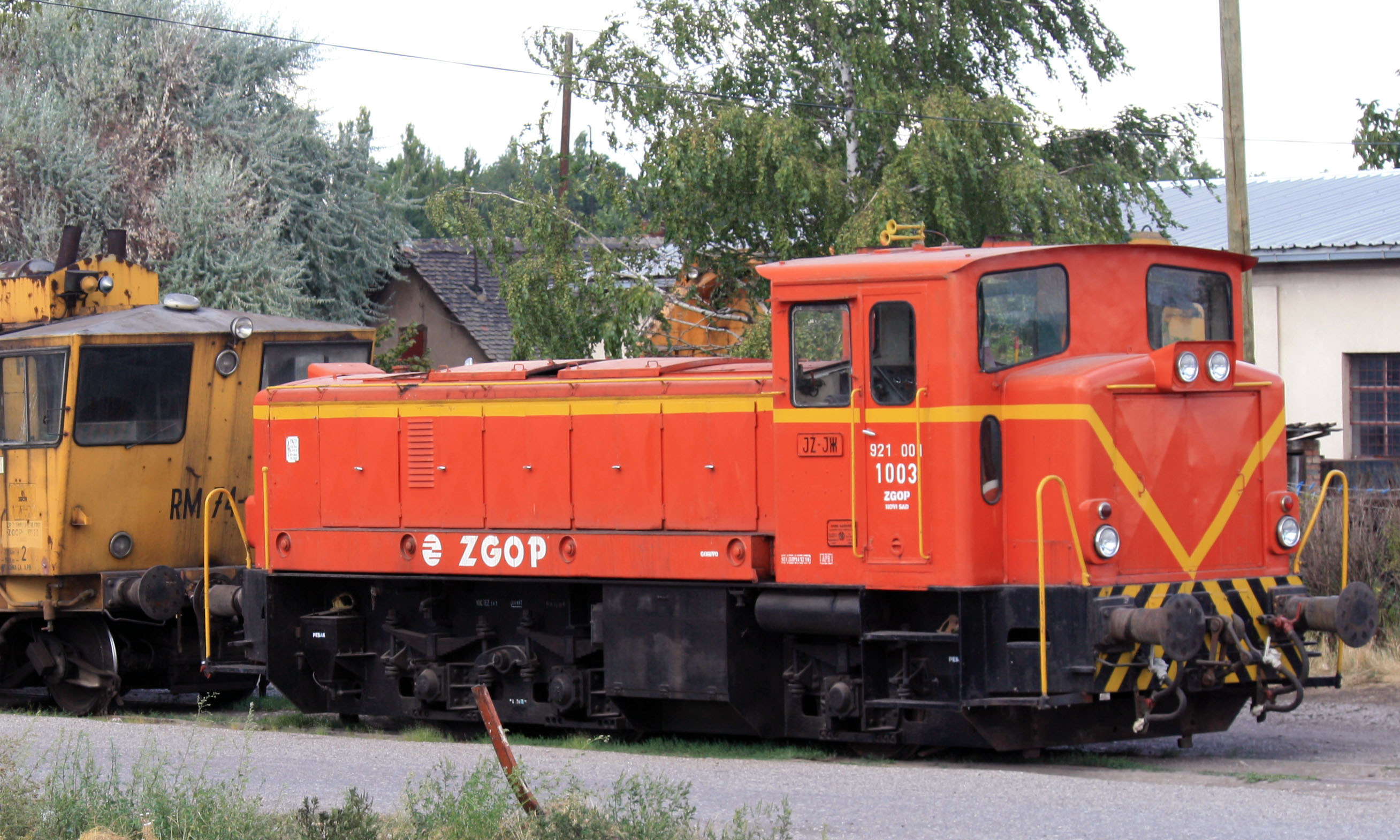 Đuro Đaković class 732 diesel locomotive of ZGOP Novi Sad.